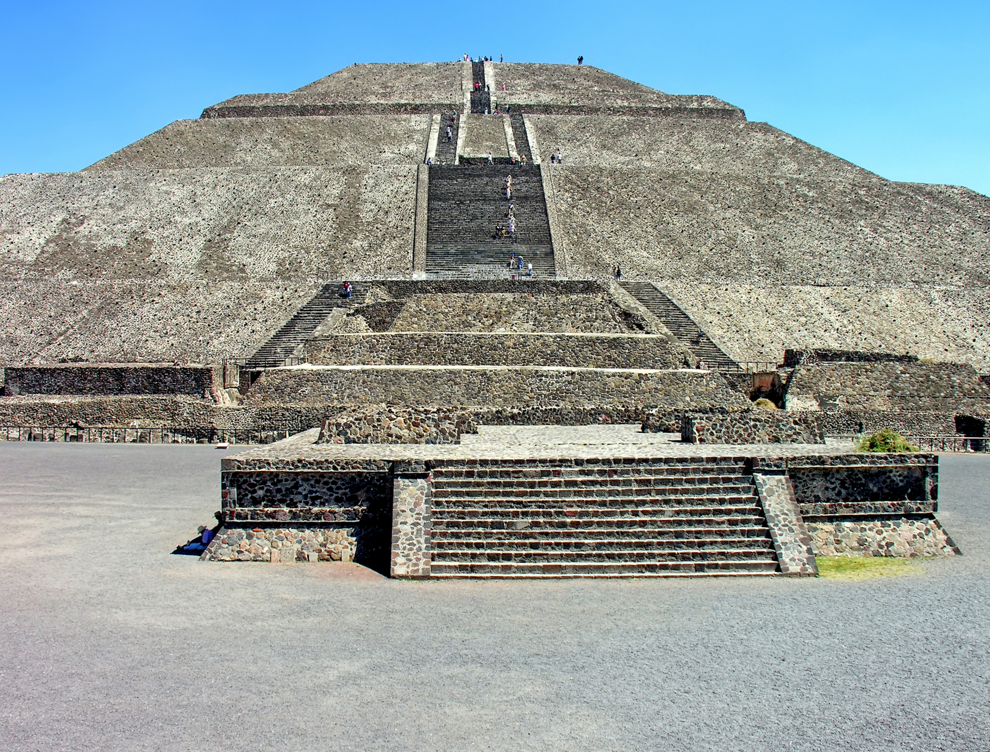 Pyramid of the Sun, (one of the Largest on Earth), Teotihuacan, Mexico The Pyramid of the Sun is one of ancient Mexico's largest structures. It is nearly 61 metres (200 ft) high and 213.4 metres (700 ft) wide. The Pyramid was built on top of a cave which was discovered in 1970. The cave is over 91 metres (300 ft) long and ends in the shape of a four-leaf clover, with four chambers. In ancient Mexico caves represented passageways to the underworld, but were also thought of as the womb of the earth. The pyramid originally consisted of four stepped platforms, a surmounting temple, and the Adosada platform, which was built over what was originally the principal facade of the pyramid. No information about the temple itself is yet available, since, along with the upper-most portion of the pyramid, it has been completely destroyed. If you're not afraid of a few stairs (around 250), the views from the top are excellent.